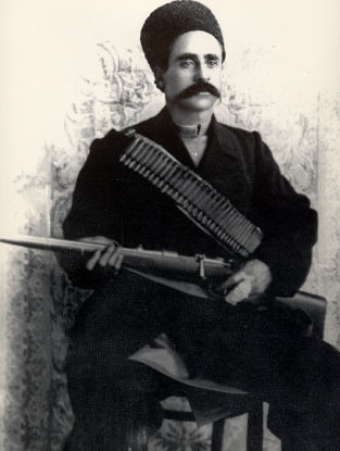 Sattar Khan, a famous Iranian Azeri revolutionnary.